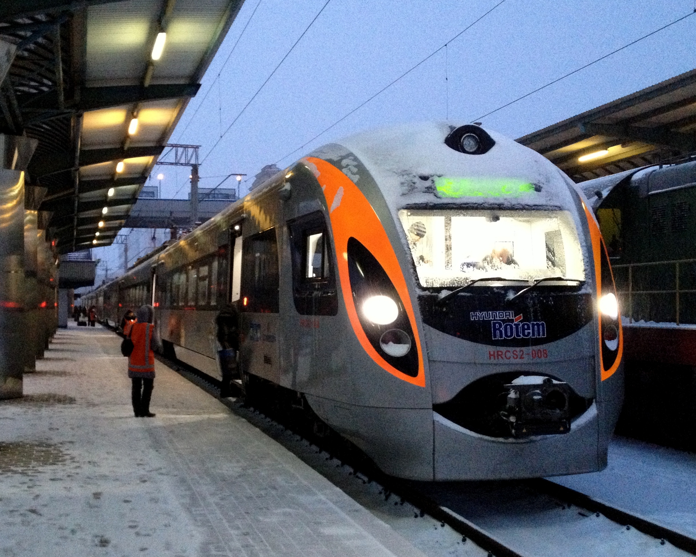 A Hyundai Rotem HRCS2-006 train at Dnipropetrovsk's main railway station, Ukraine